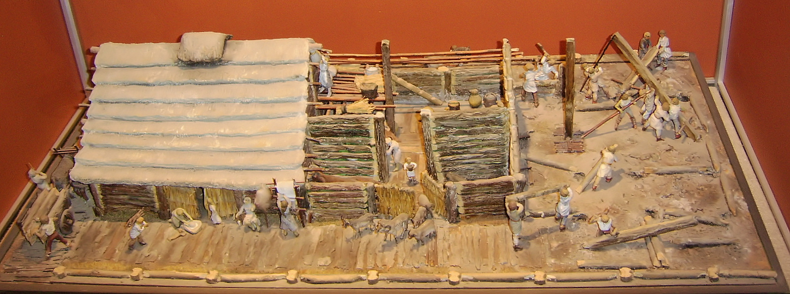 Building houses 8th century BC (Poland) Each house was about 80m (square). In the house lived about 6 to 10 people.